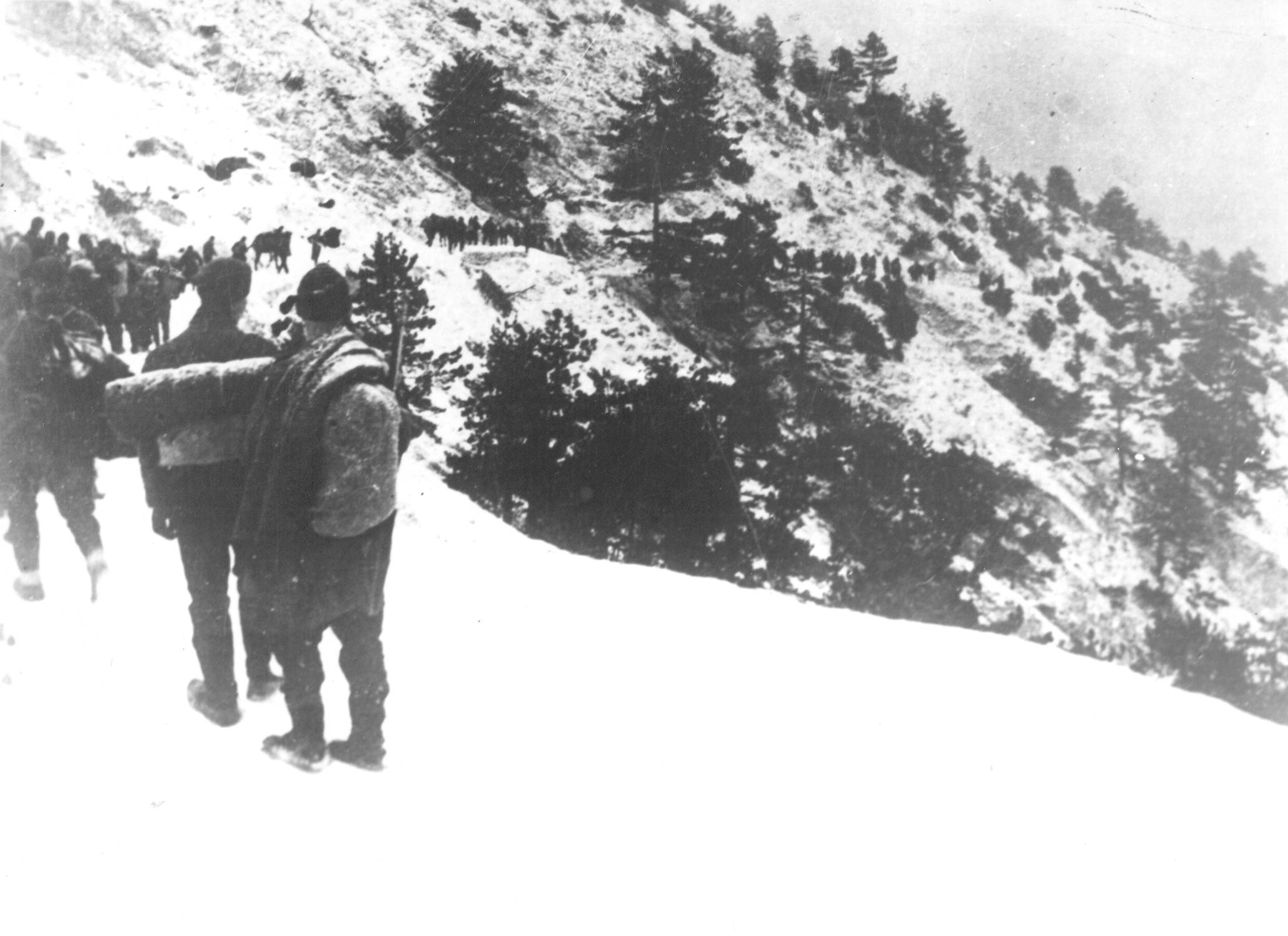 Fighters of the 1st Macedonia-Kosovar Brigade during the February march of 1944.